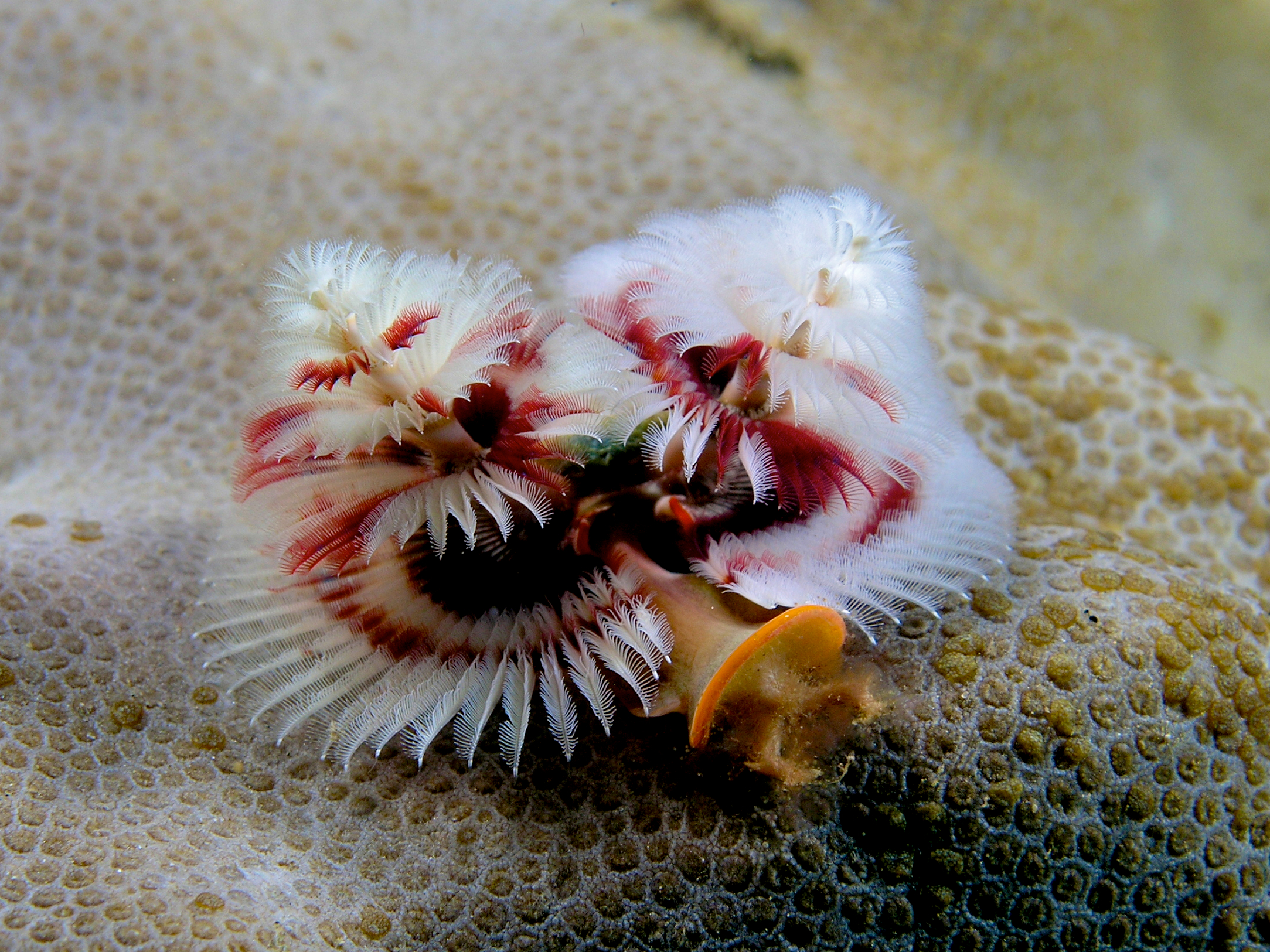 Spirobranchus giganteus (Red and white Christmas tree worm)